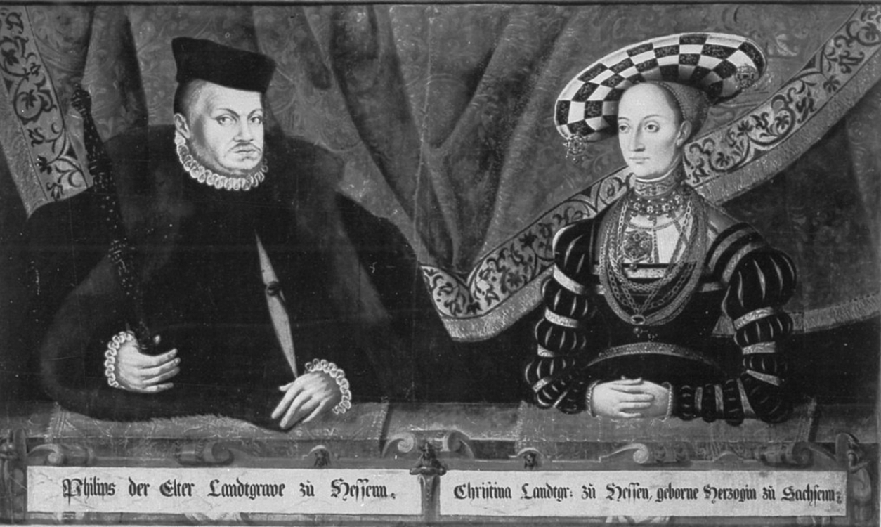 Landegraves of Hesse